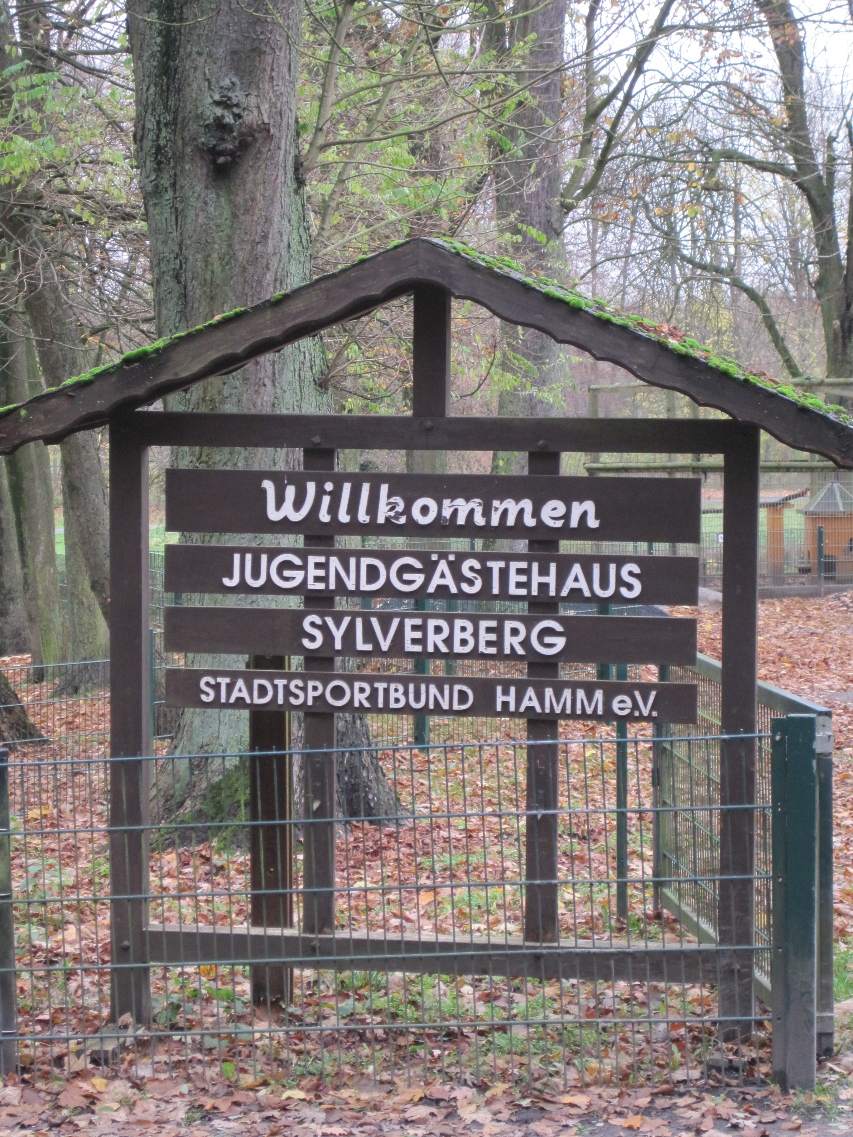 Sign of the youth hostil "Haus Sylverberg", within the spa gardens.